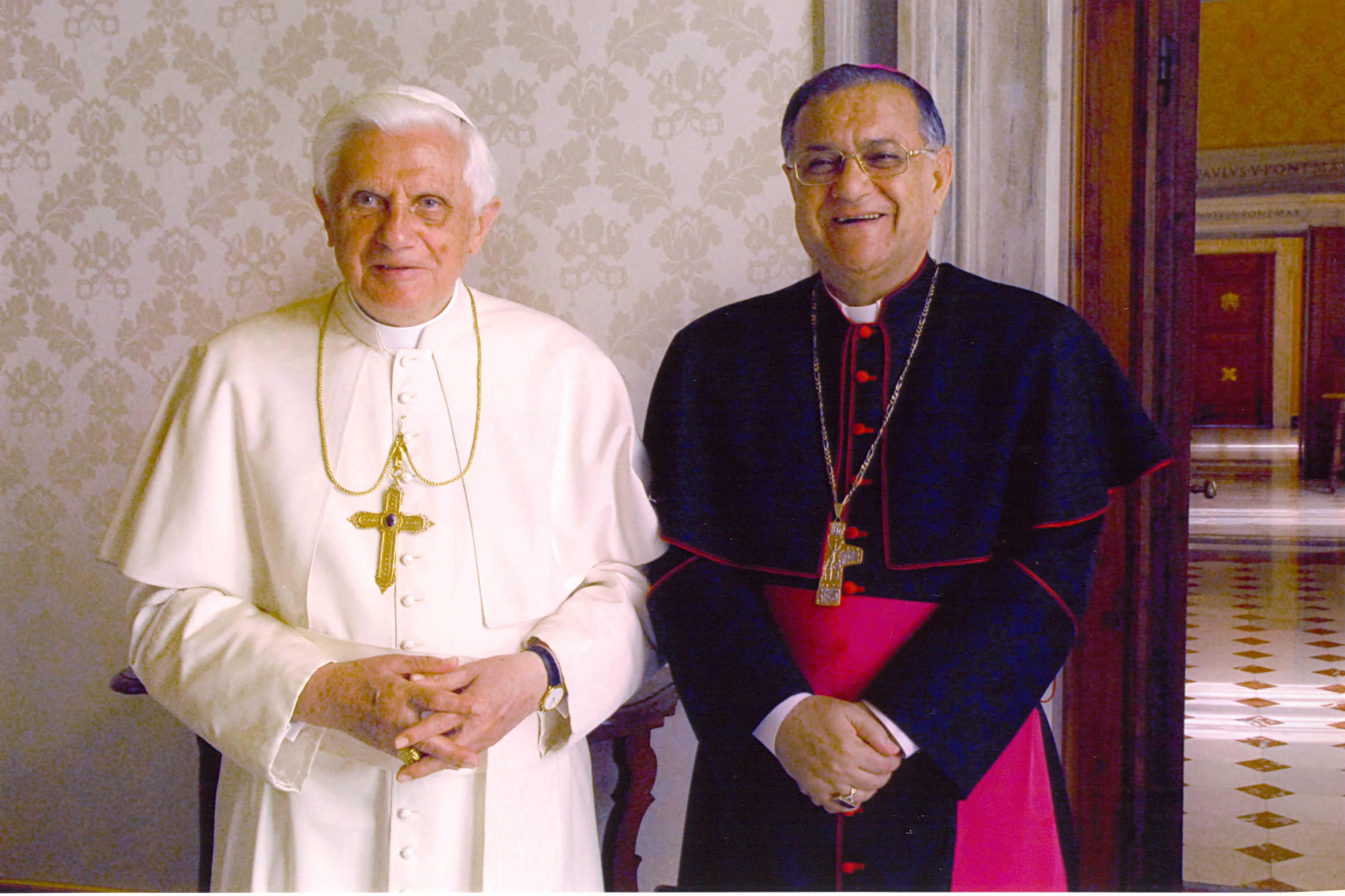 Patriarch Fouad and Pope Benedict XVI